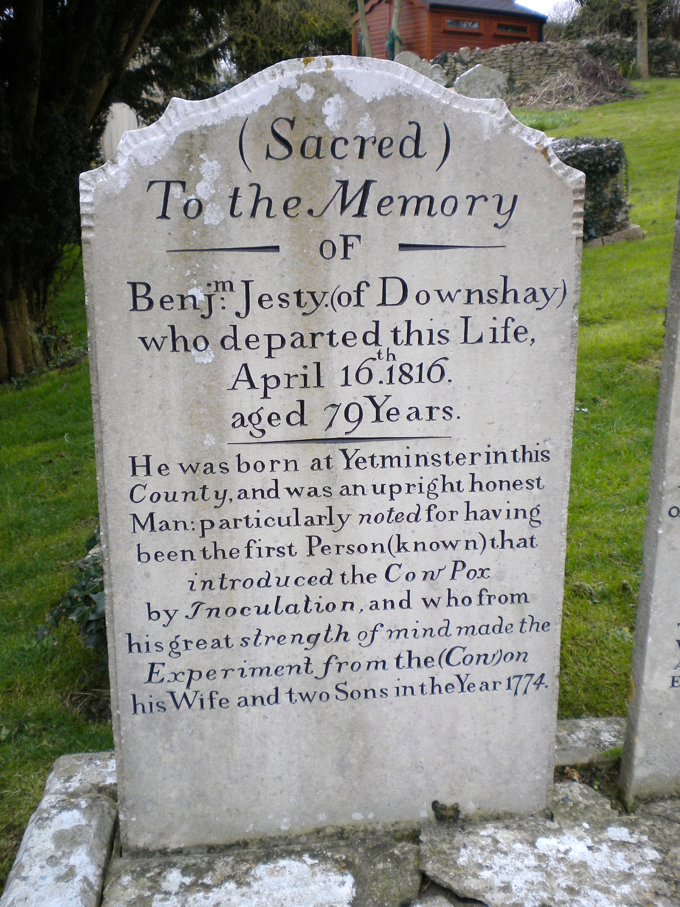 The tomb of Benjamin Jesty at Worth Matravers Church, Dorset, England.